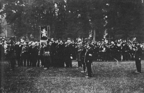 Oath of Czechoslovak legionnaires